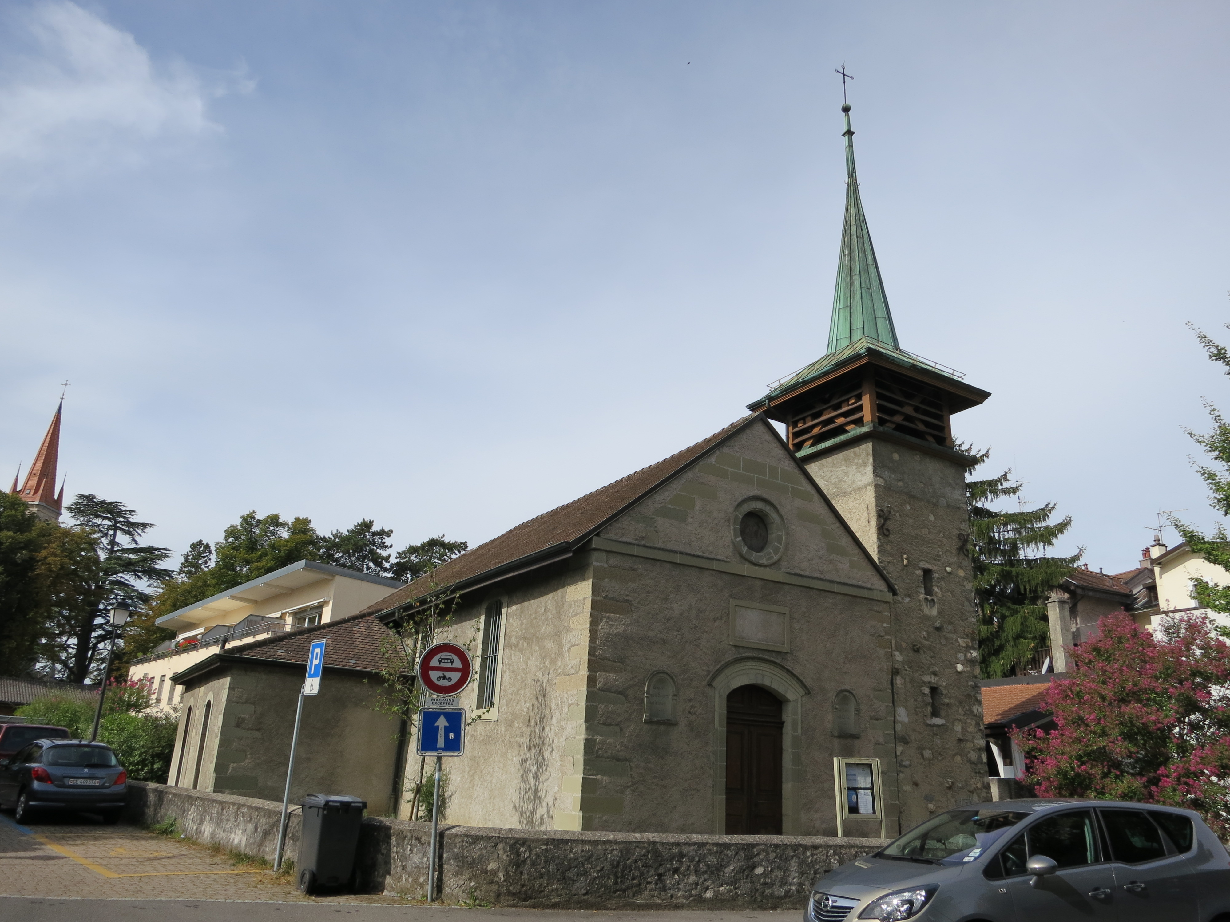 Trinity church in Lancy